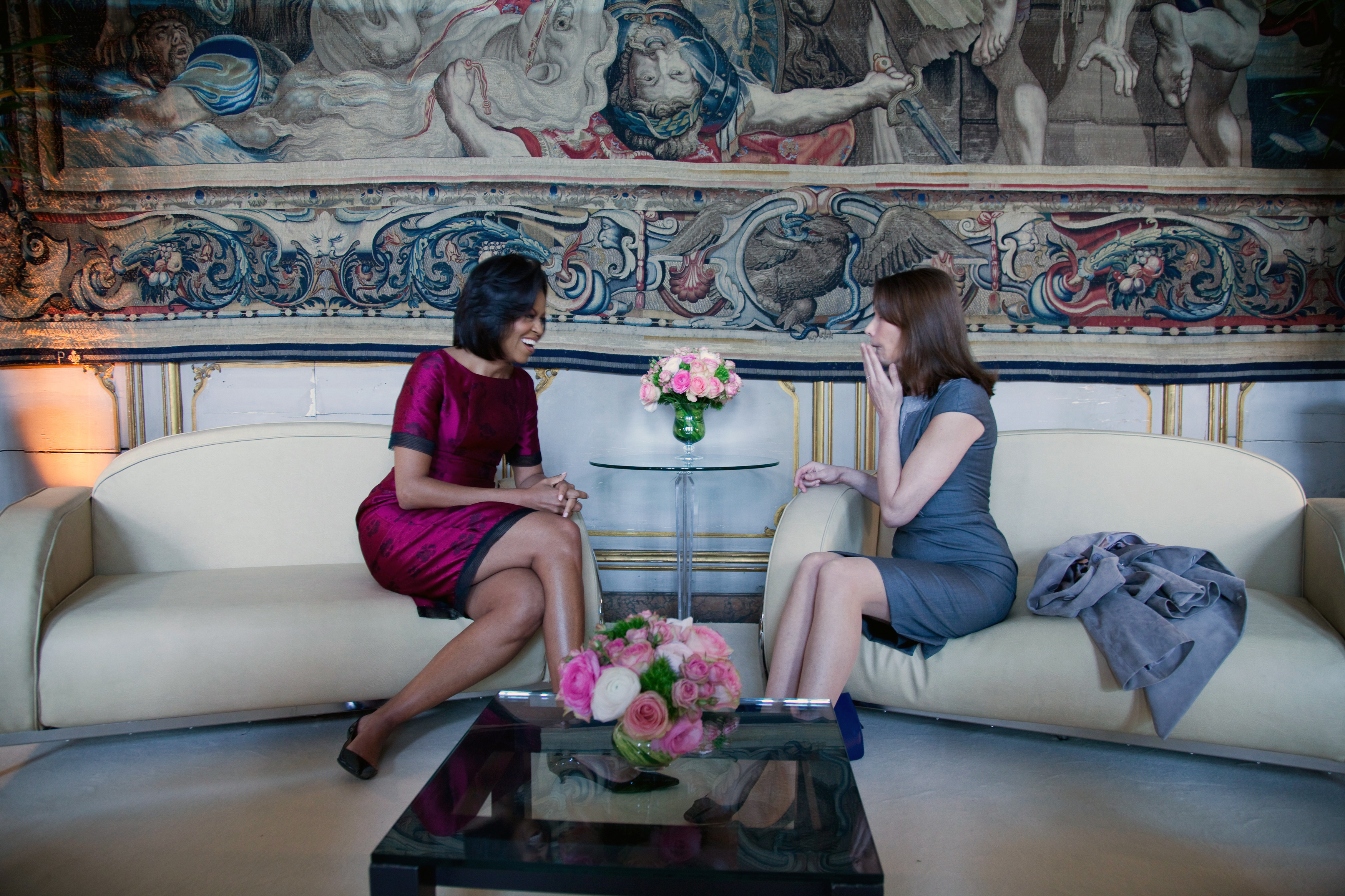 Michelle Obama with Carla Bruni-Sarkozy